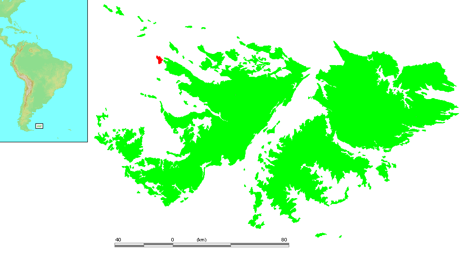 Falkland Islands - Westpoint Island.PNG